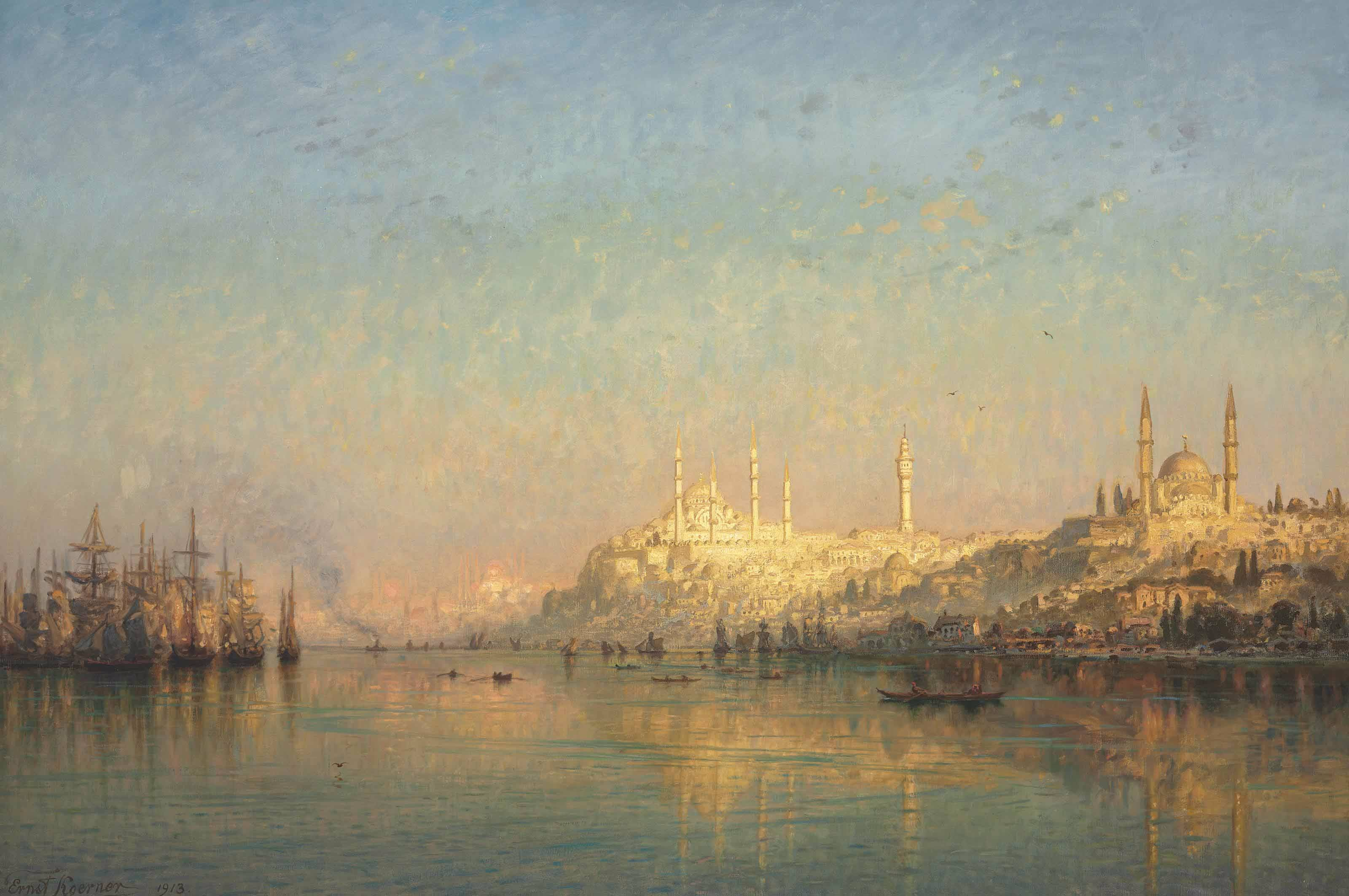 View Across the Golden Horn, Hagia Sophia and the Blue Mosque beyond, Constantinople signed and dated, 'Ernst Koerner/1913.' (lower left) oil on canvas 33 ½ x 49 ½ in. (85.1 x 125.7 cm.)